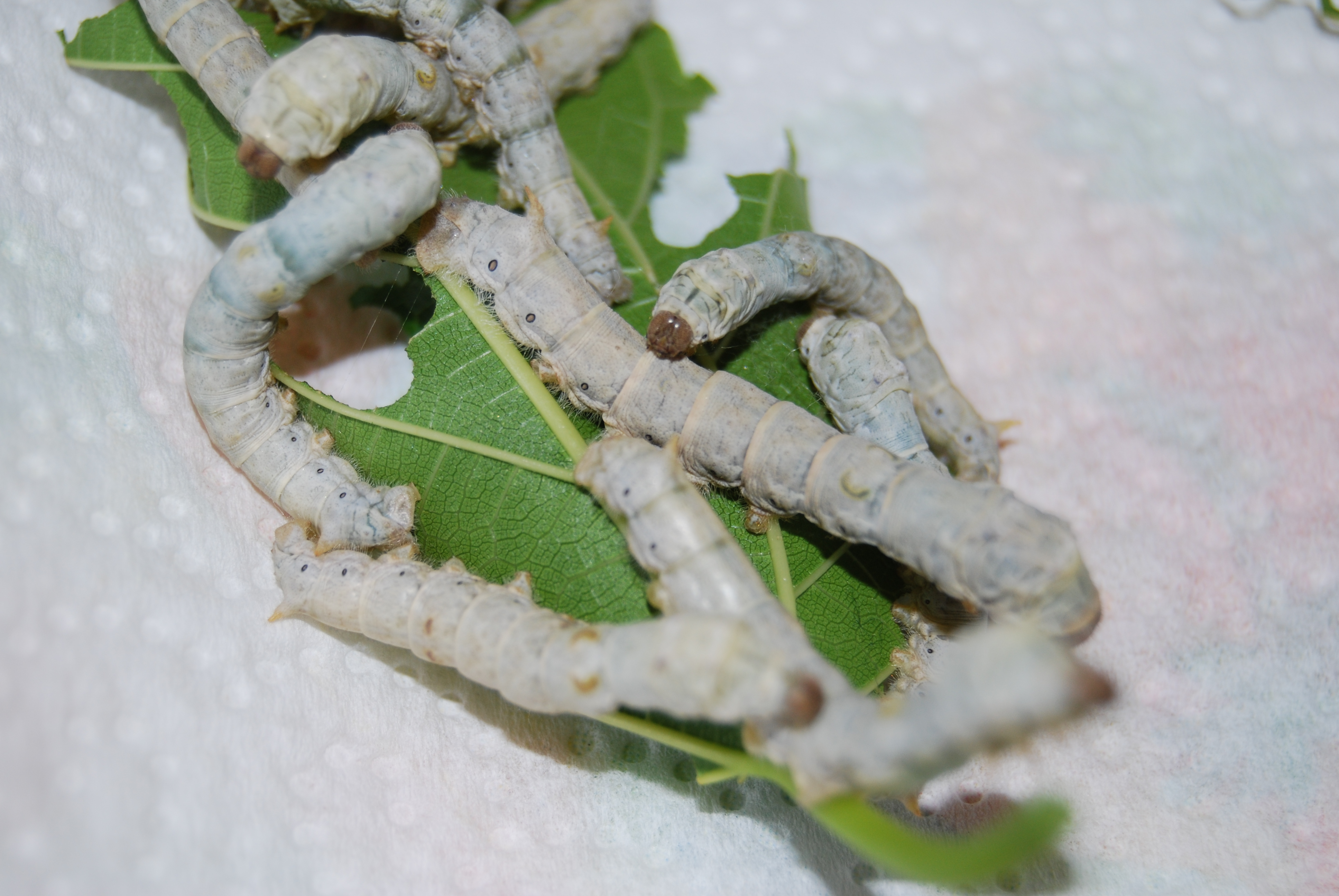 Fourth Instar Silkworm Larvae